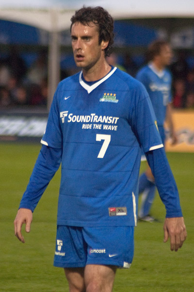 Photo of soccer player, Leighton O'Brien.